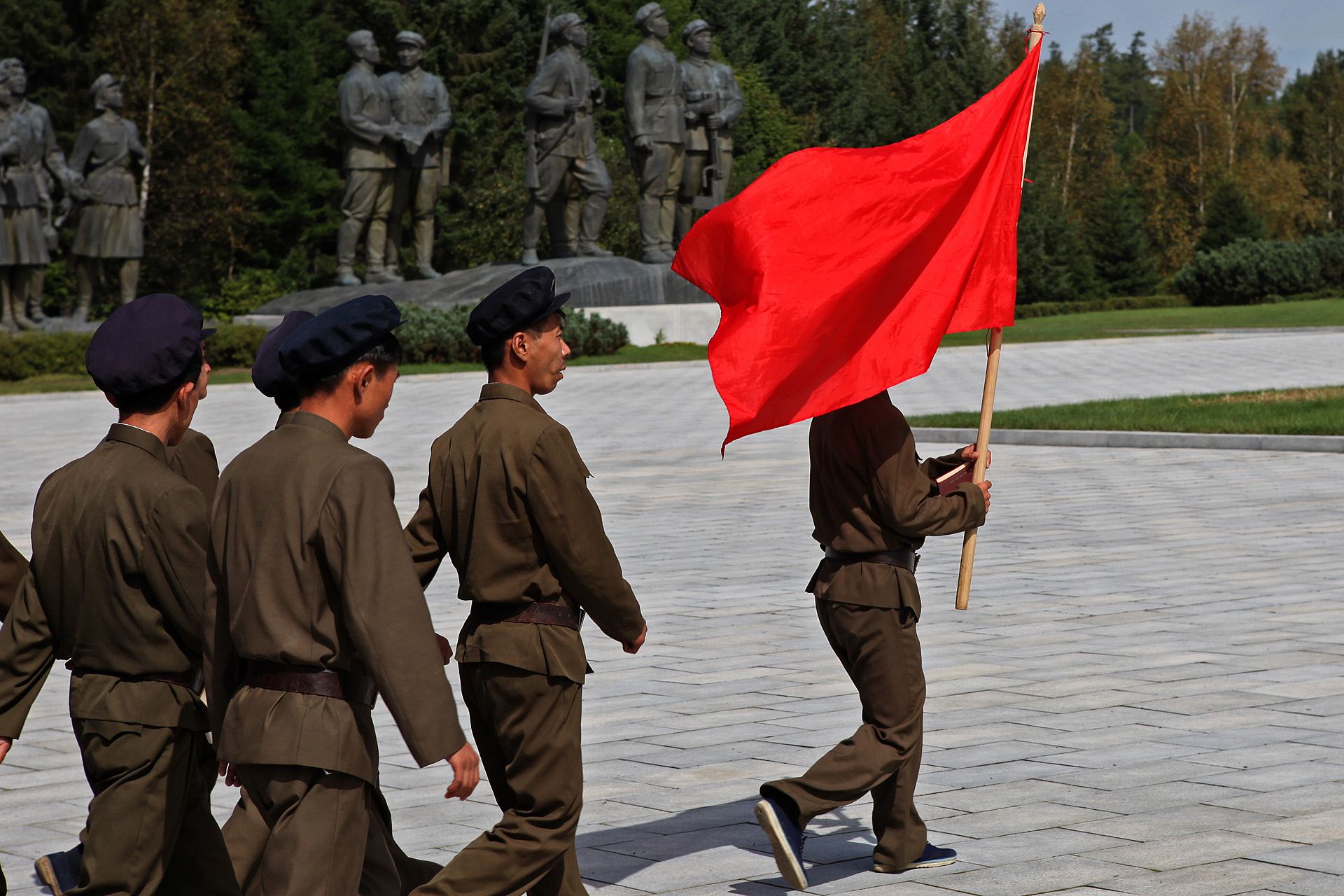 Place where the locals paying their respect at a statue of Kim Il Sung in Samjiyon. There is the Samjiyon grand monument which comprises a statue of the President, groups of sculptures and a tower of torchlight.